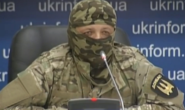 Semen Semenchenko, Ukrainian militia battalion «Donbass» commander at press-conference, August 6, 2014.